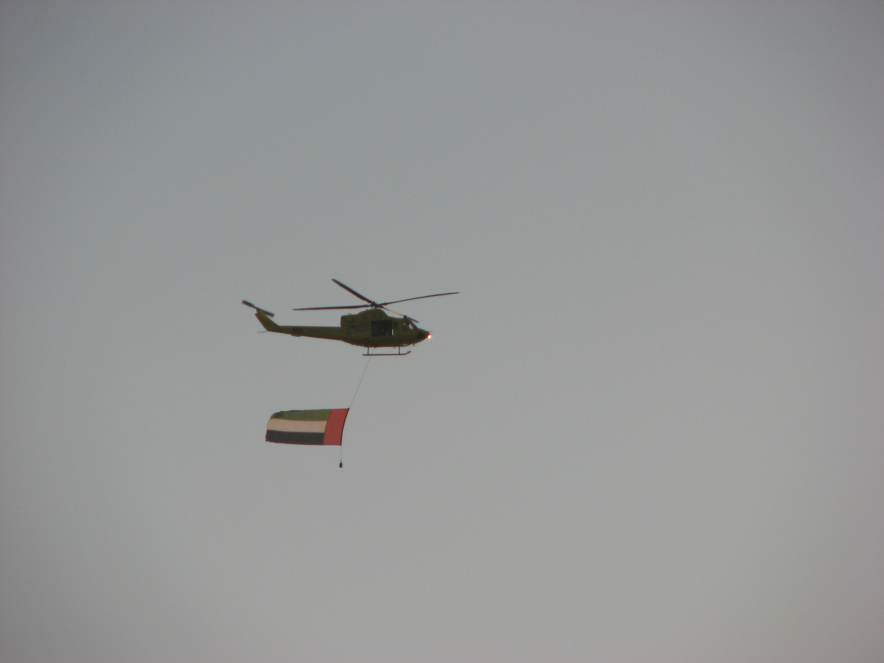 Unification Day in the UAE.